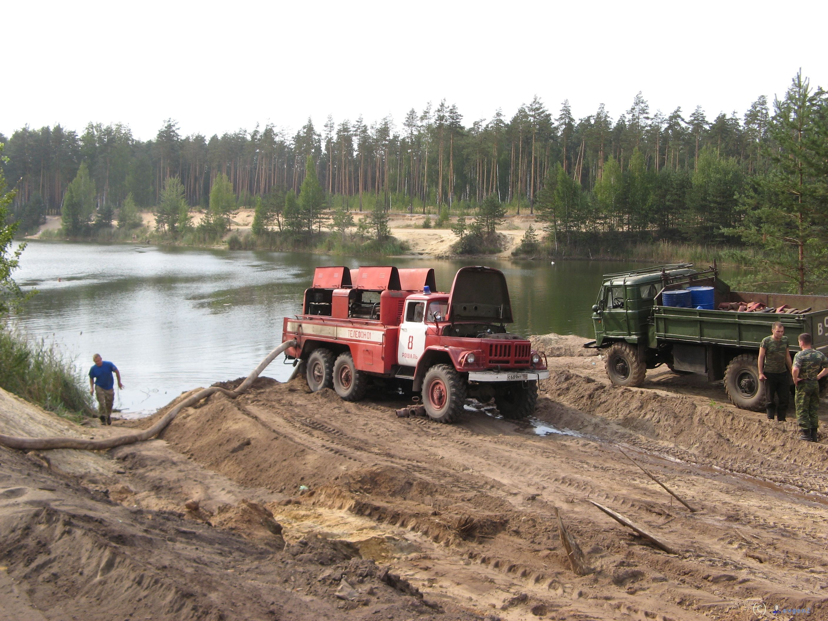 truck pumping water, Against wildfires in Russia, 2010, region of Roshal